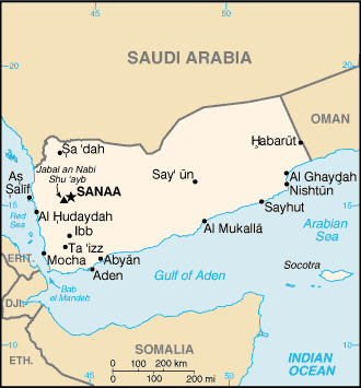 Map of Yemen, showing major towns.